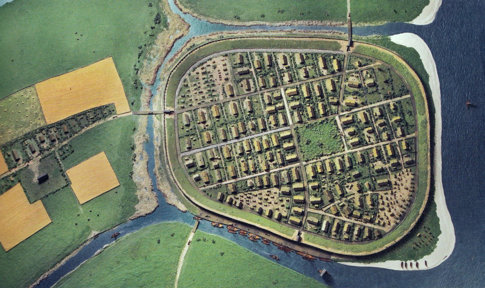 Scale model of Aarhus during the Viking age in Moesgaard Museum